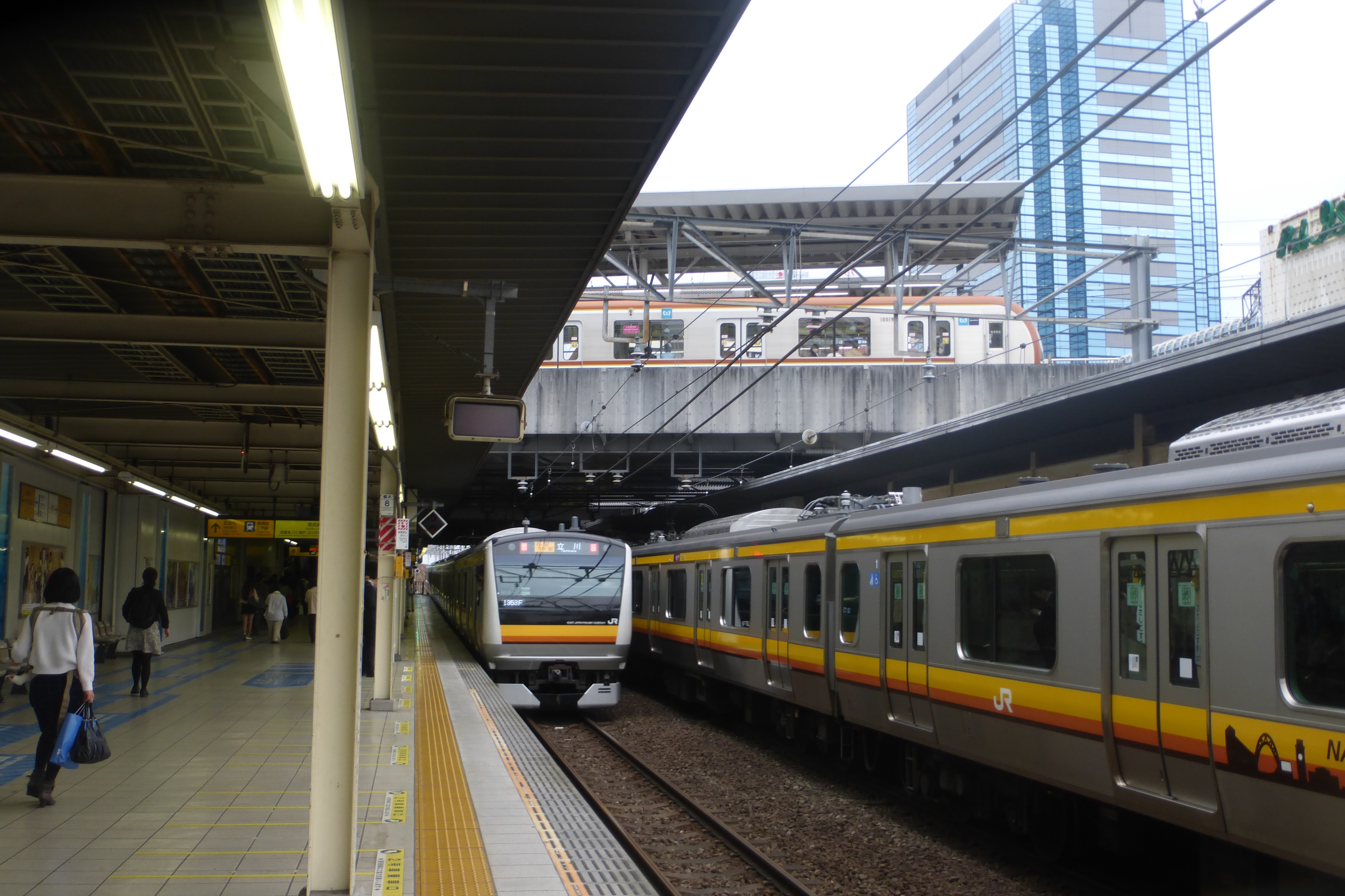 The JR Nambu Line platforms at Musashi-Kosugi Station